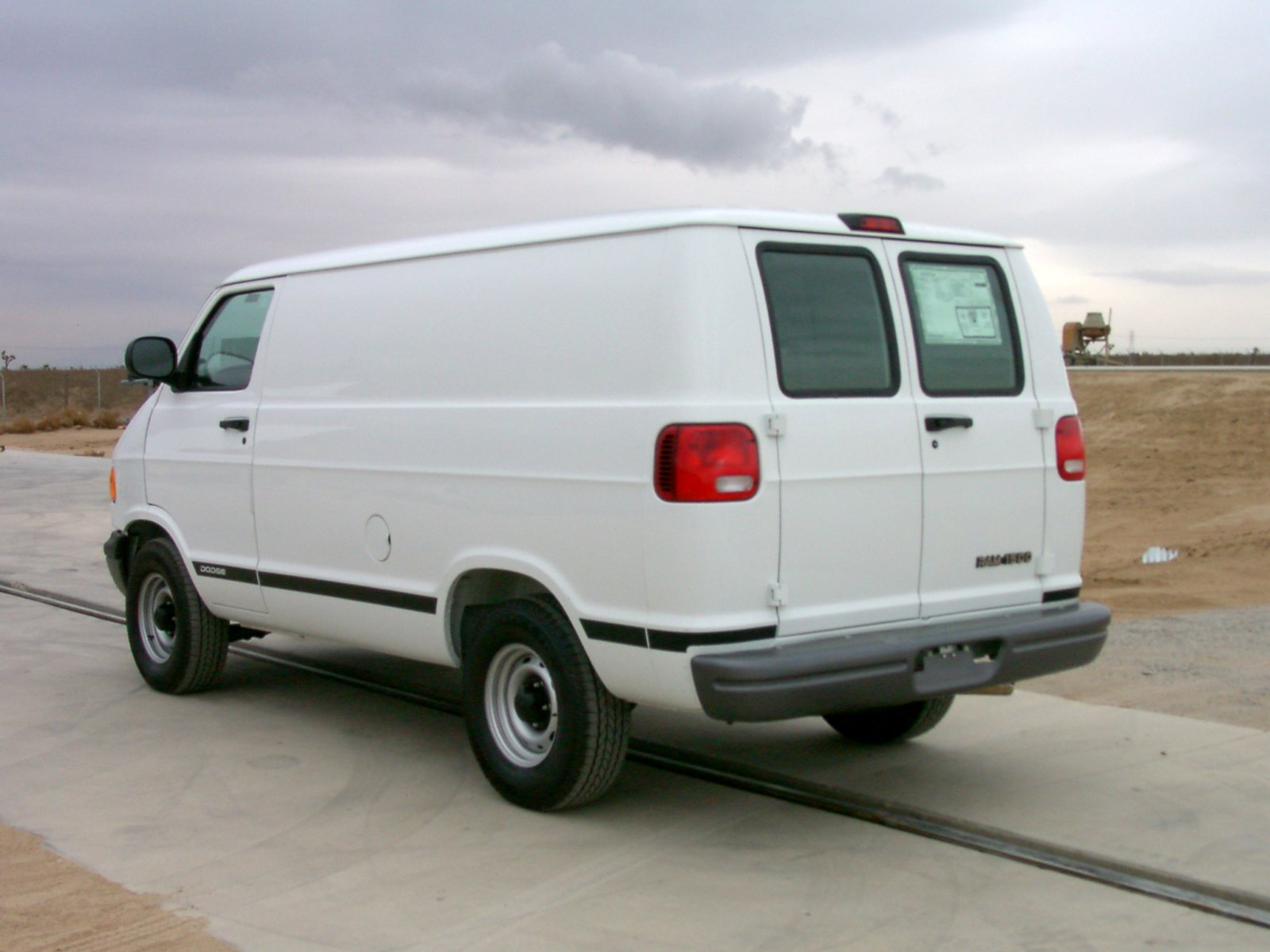 2001 Dodge RAM 1500 van, photographed in USA.